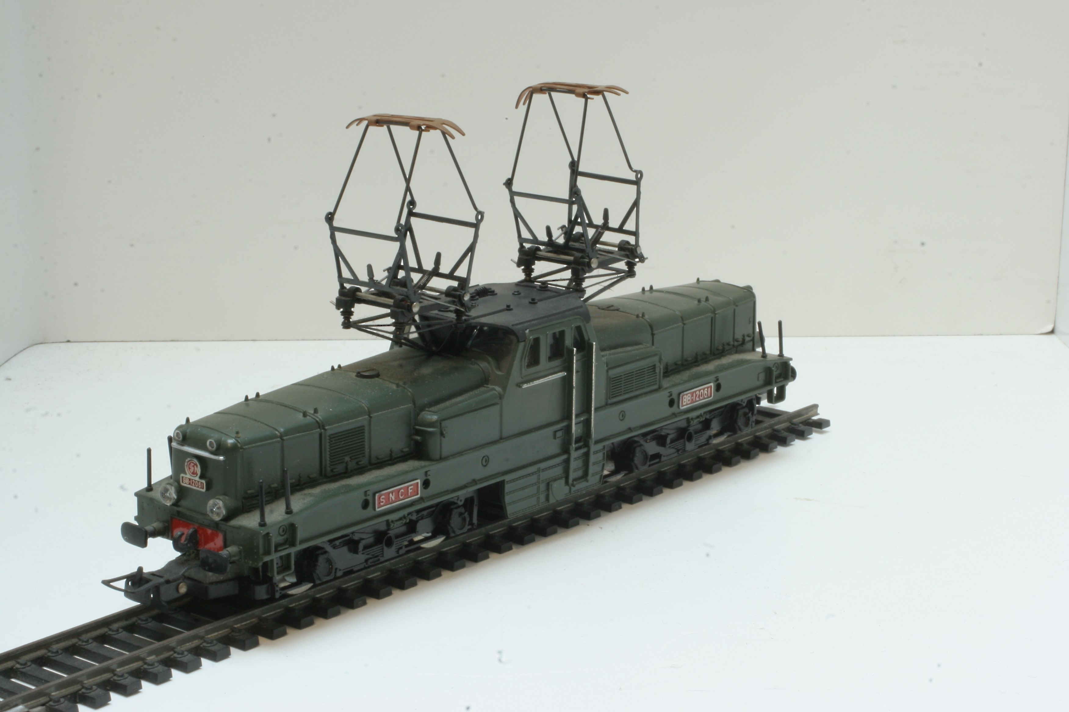 Loco Hornby HO SNCF BB 12061